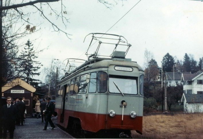 Simensbråten Staton on the last day the Simensbråten Line was operated